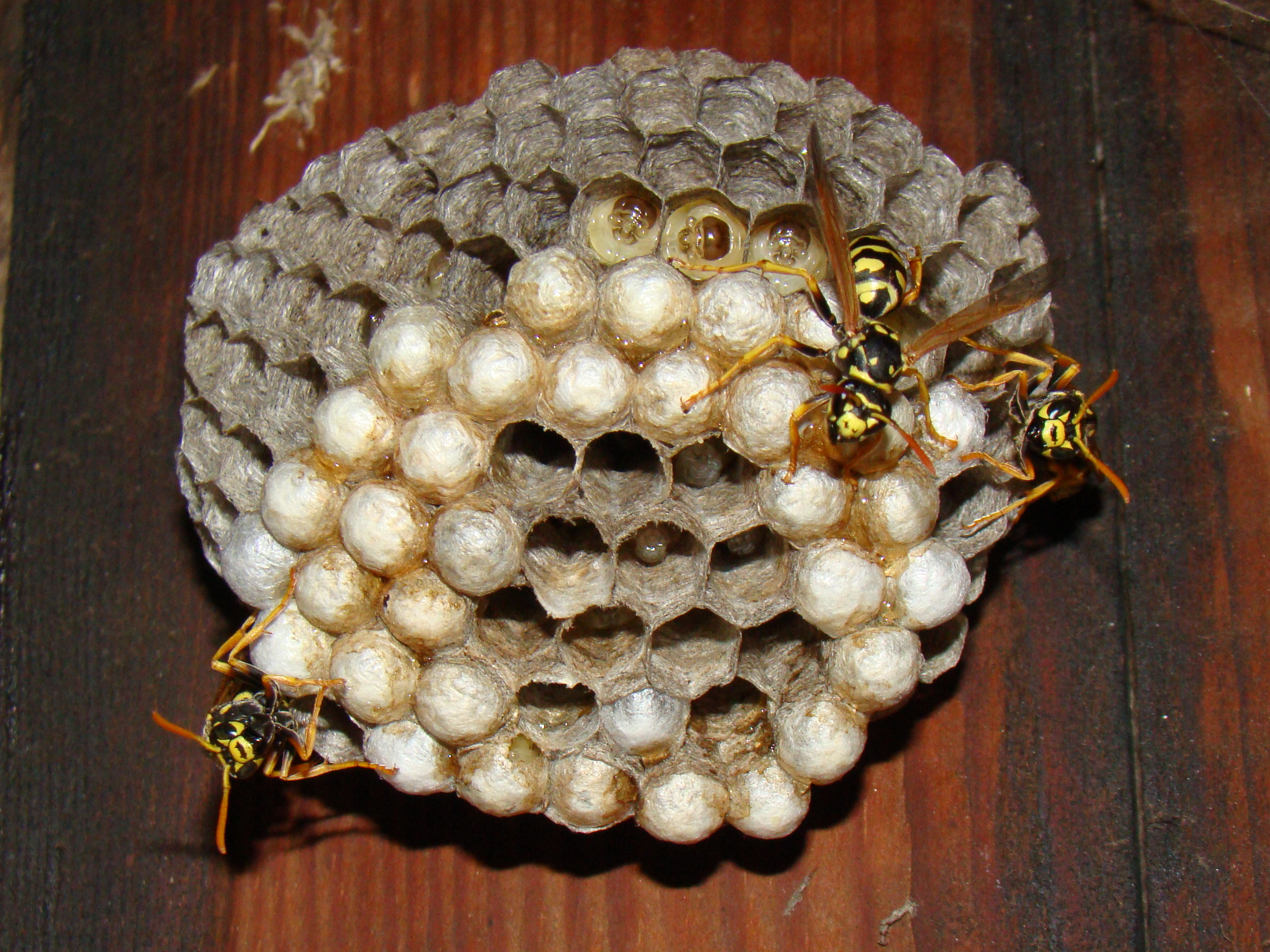 Wasp nest. Ust'-Labinsk, Krasnodar region, Russia.